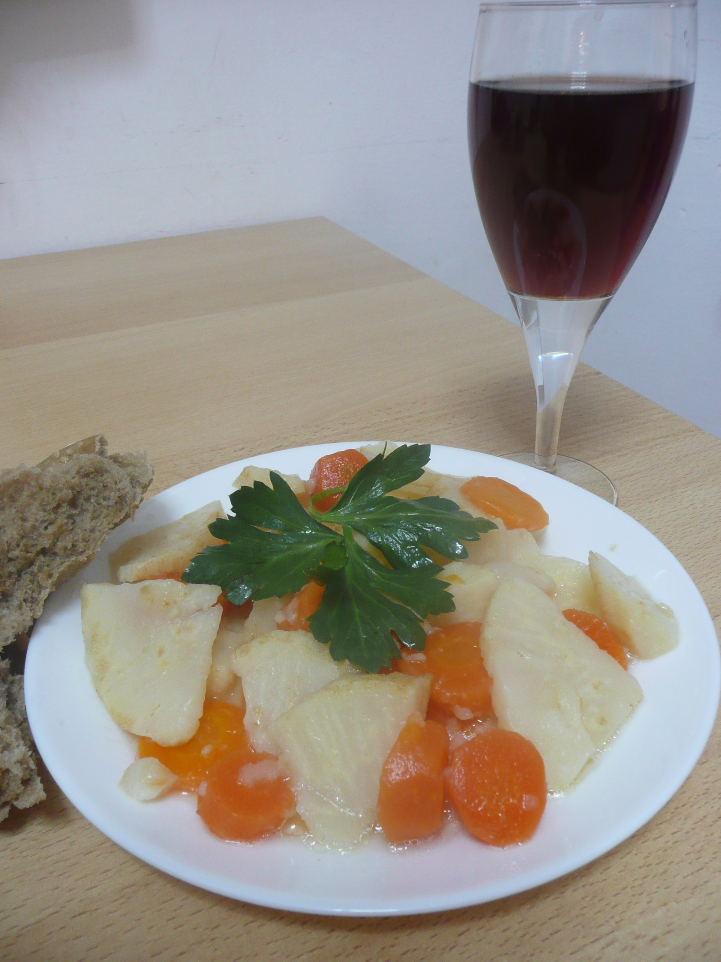 Apiu. the product and the photo were self-made by the uploader of the file.